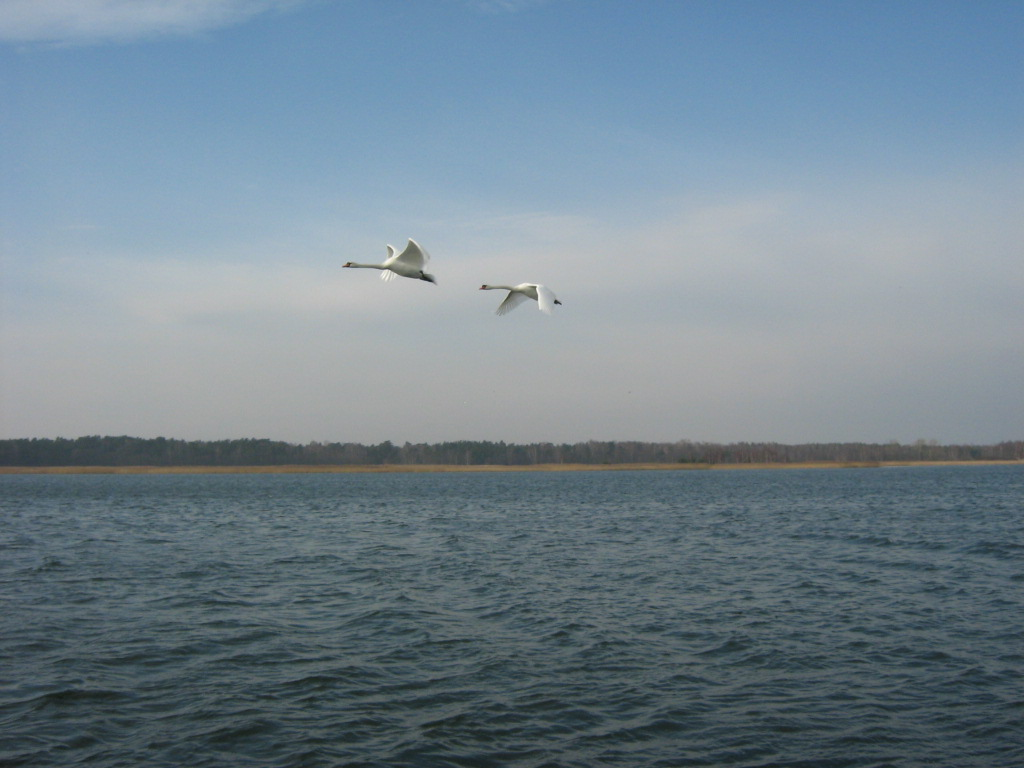 Mute swans in Ptasi Raj nature reserve, Gdańsk.